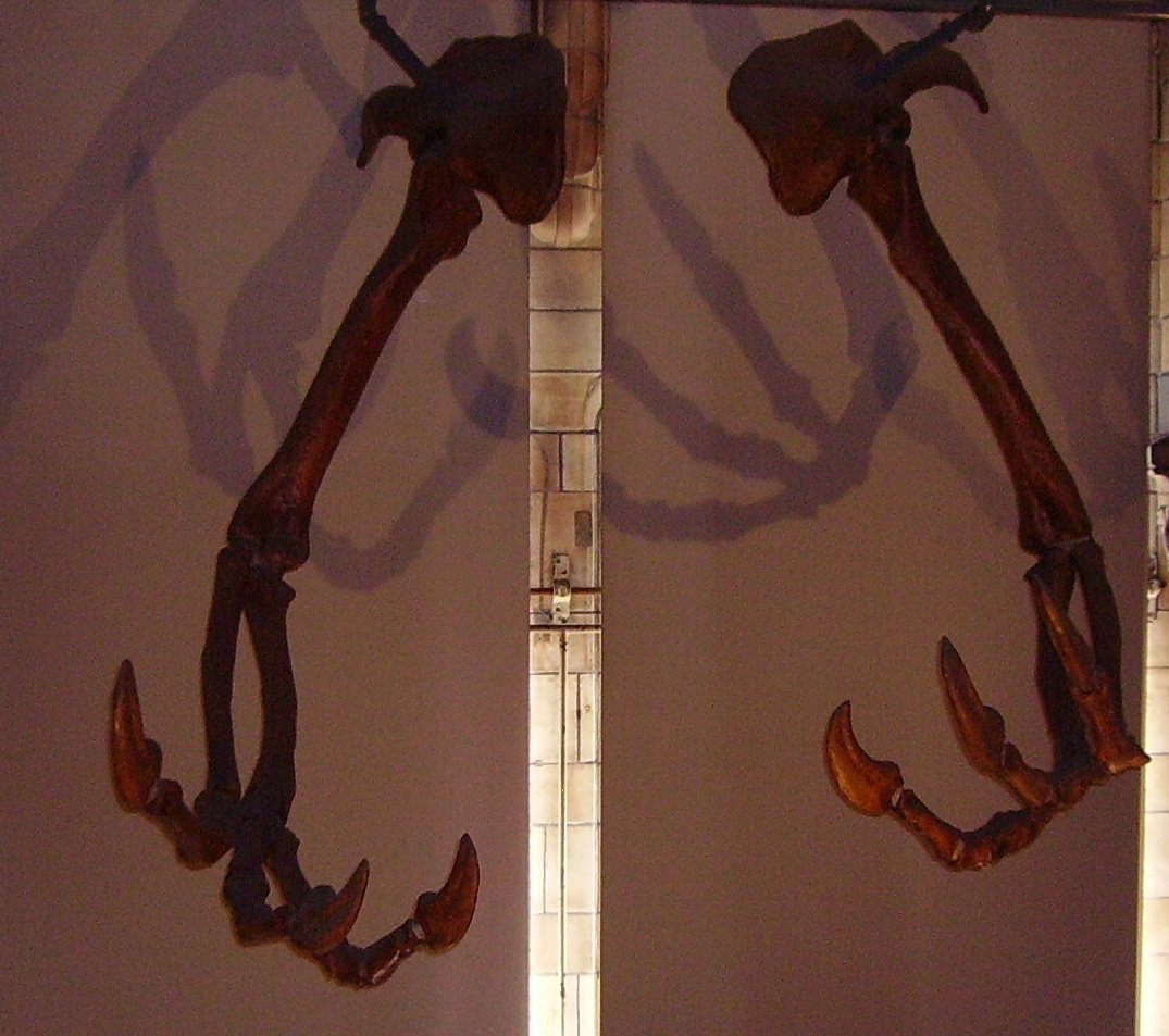 Mounted forelimbs of Deinocheirus, at the Natural History Museum, London